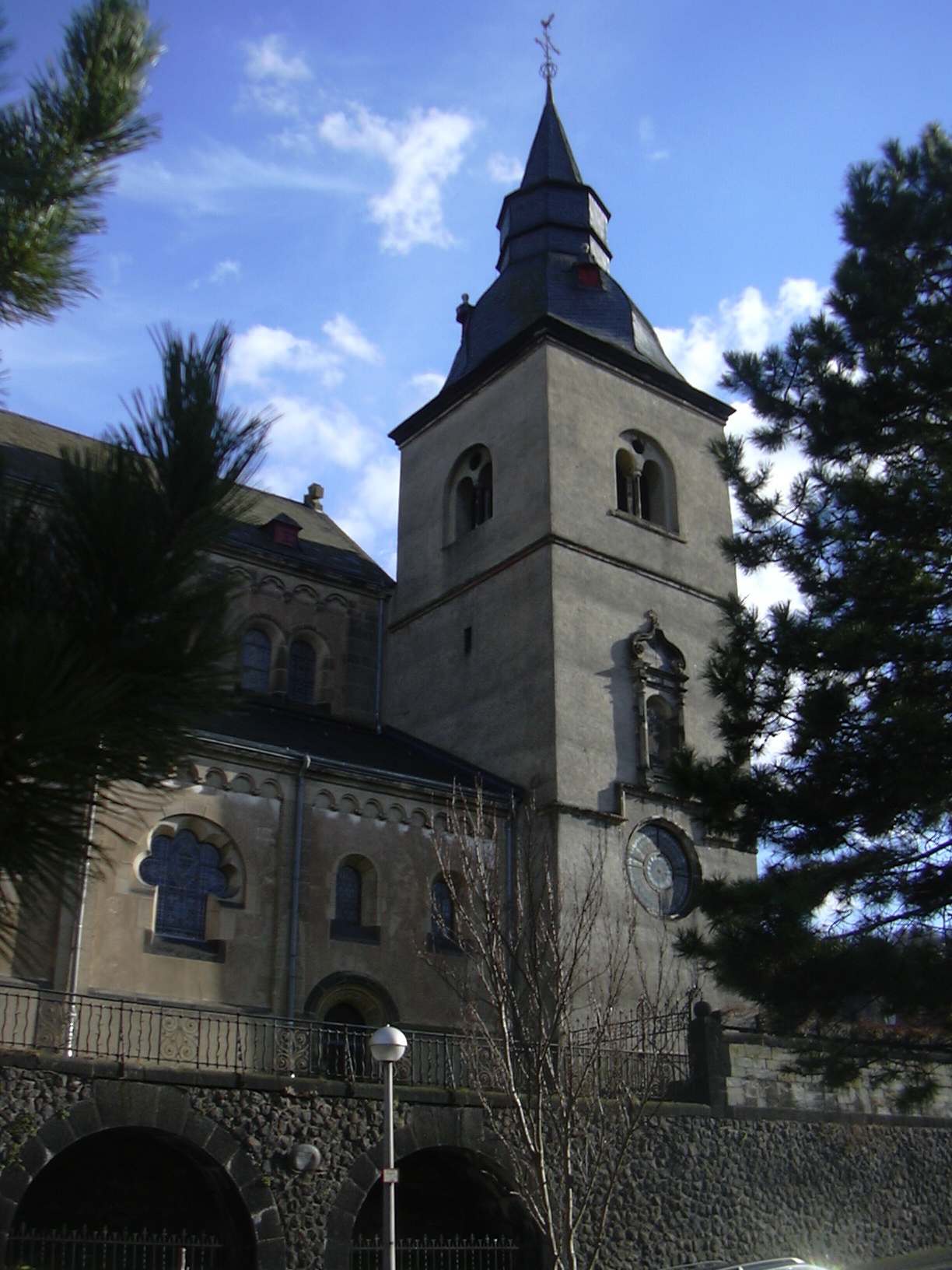 St. Peter and Paul, Remagen: Baroque tower